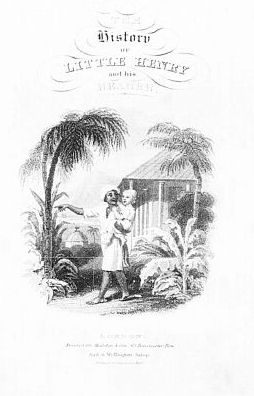 Illustrated title page for Mary Martha Sherwood, Little Henry and his Bearer, London: Houlston and Son, 1830?.